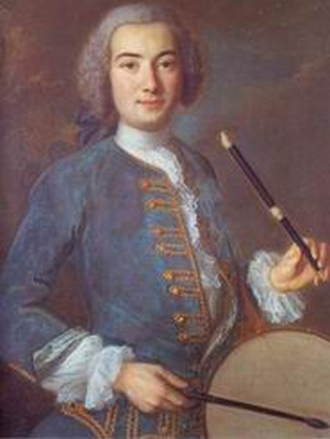 "Le Galoubet" a pipe and tabor (galoubet and tambourin) player (tambourinaire)